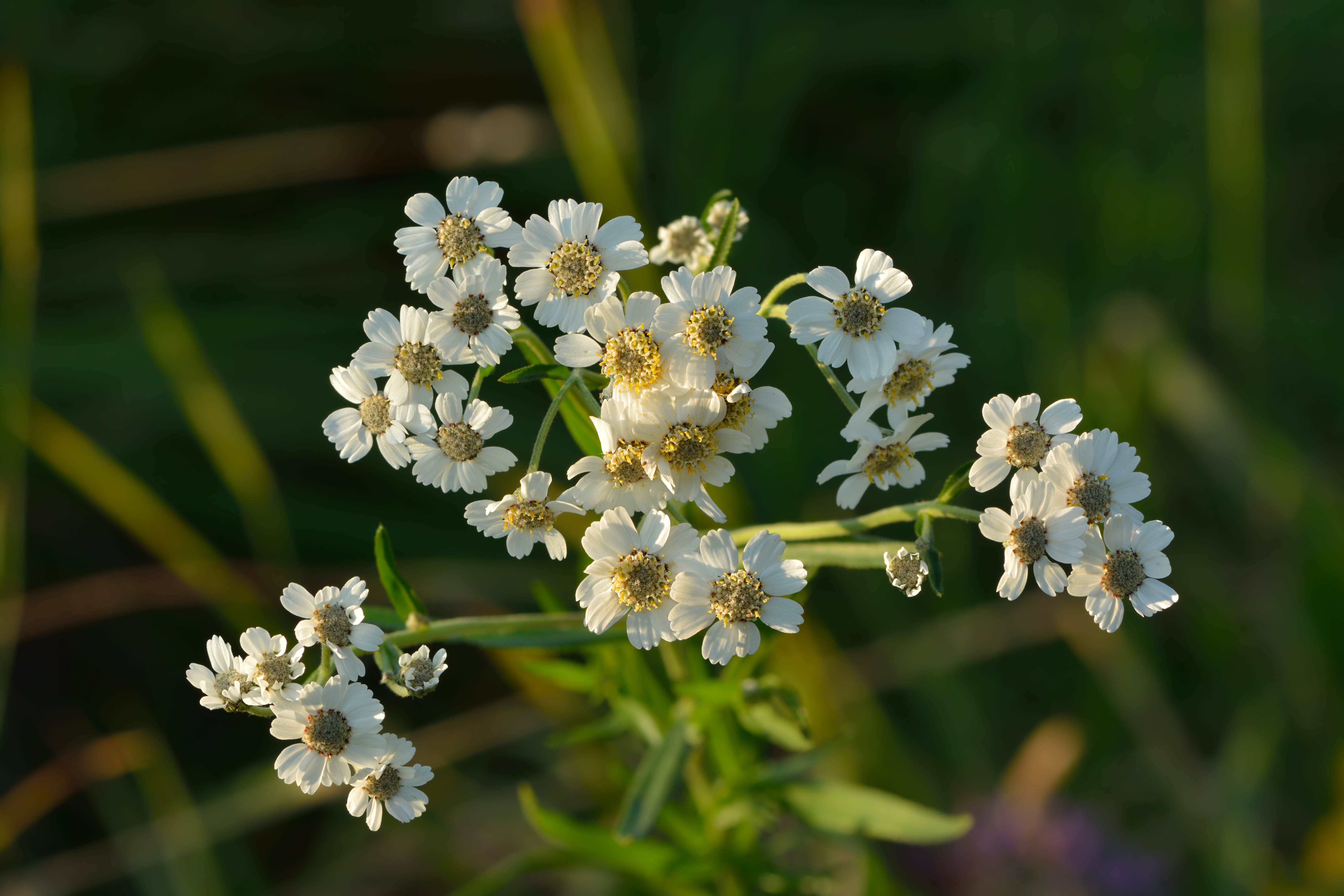 Sneezewort (Achillea ptarmica). Keila, Northwestern Estonia.